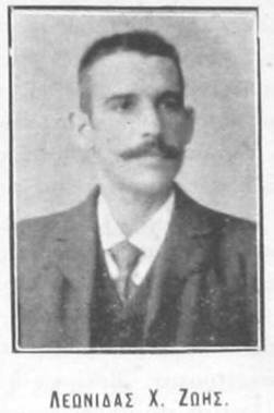 Leonidas X. Zois